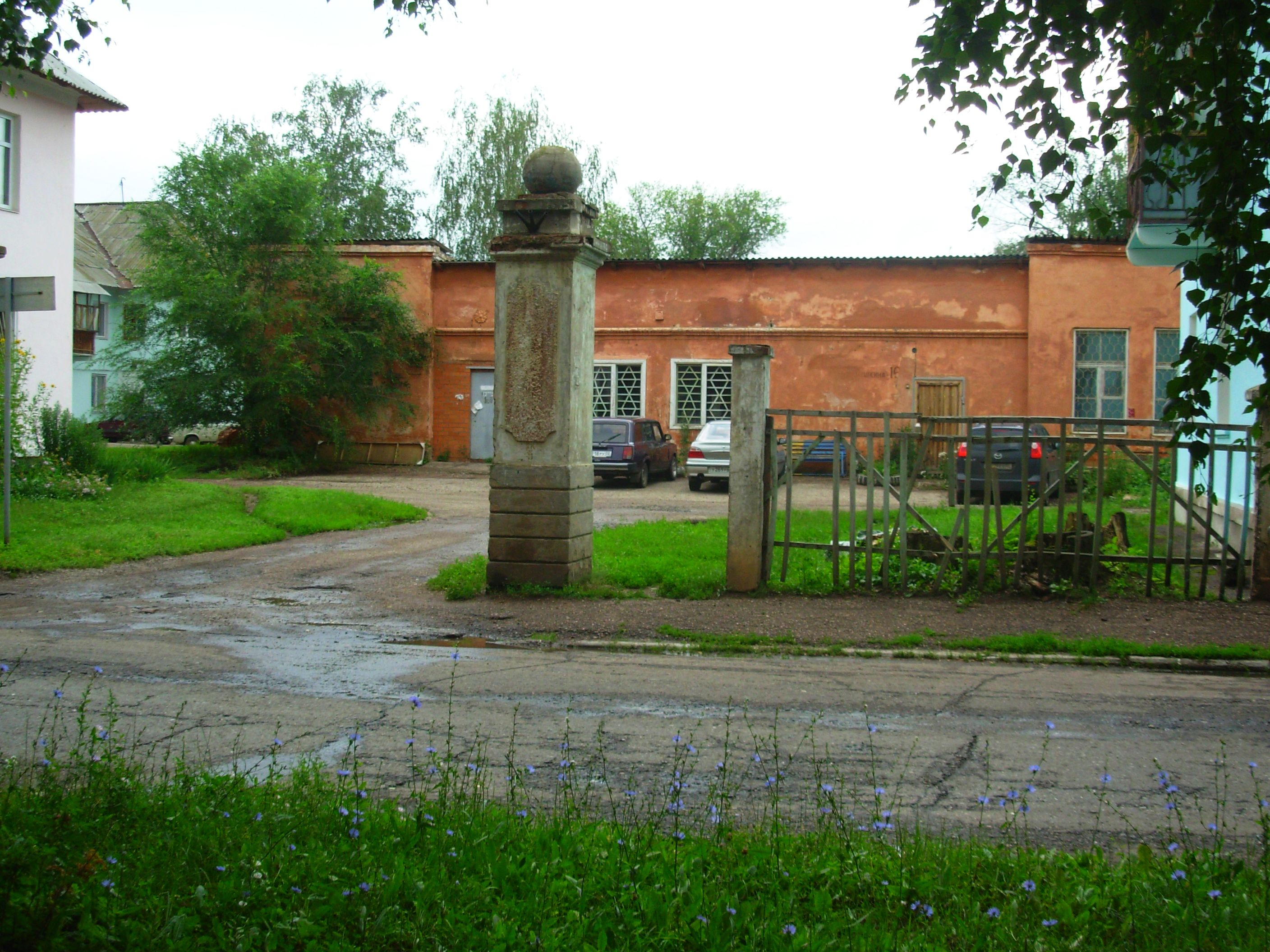 street